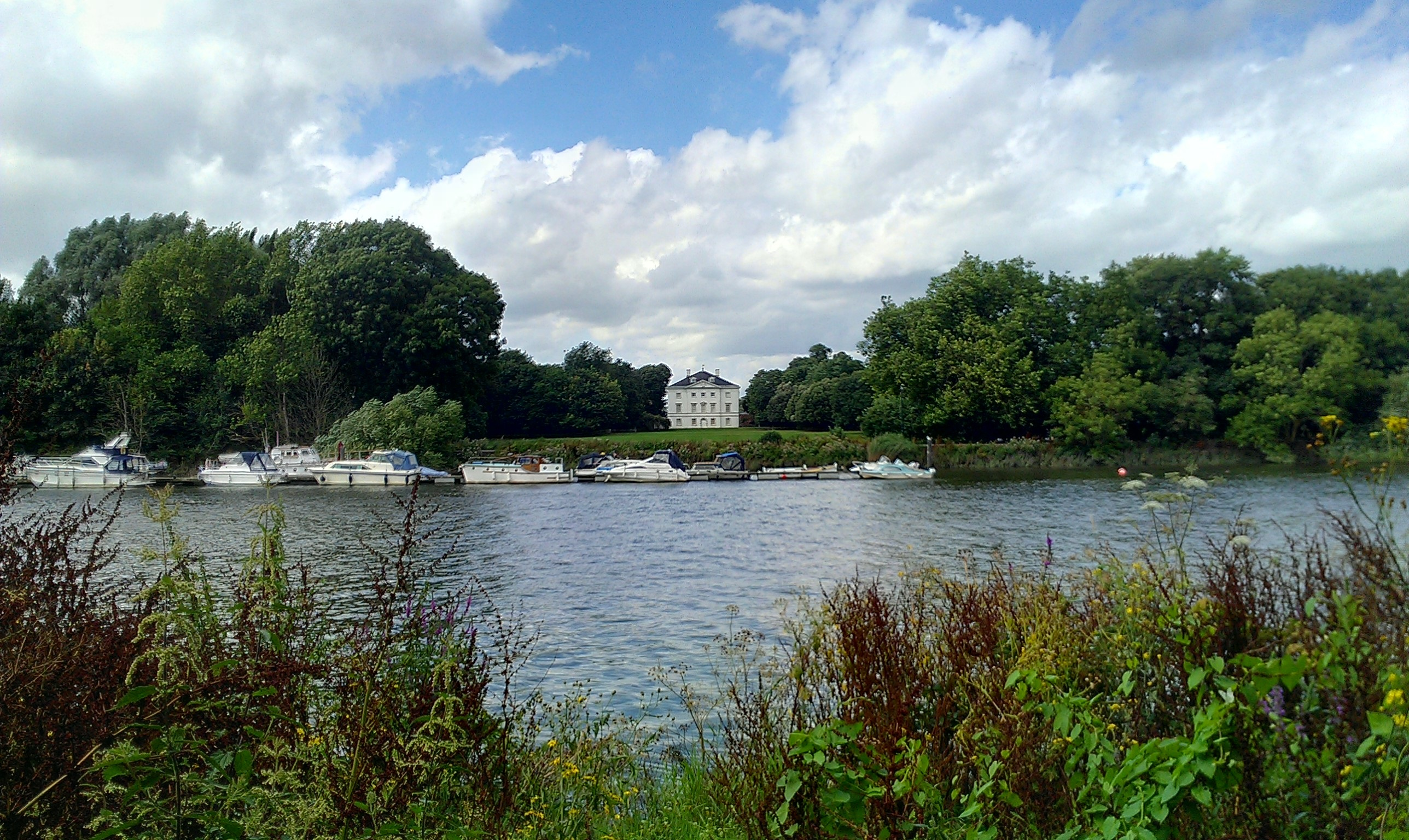 Marble Hill House seen from across the River Thames, in Richmond, West London.